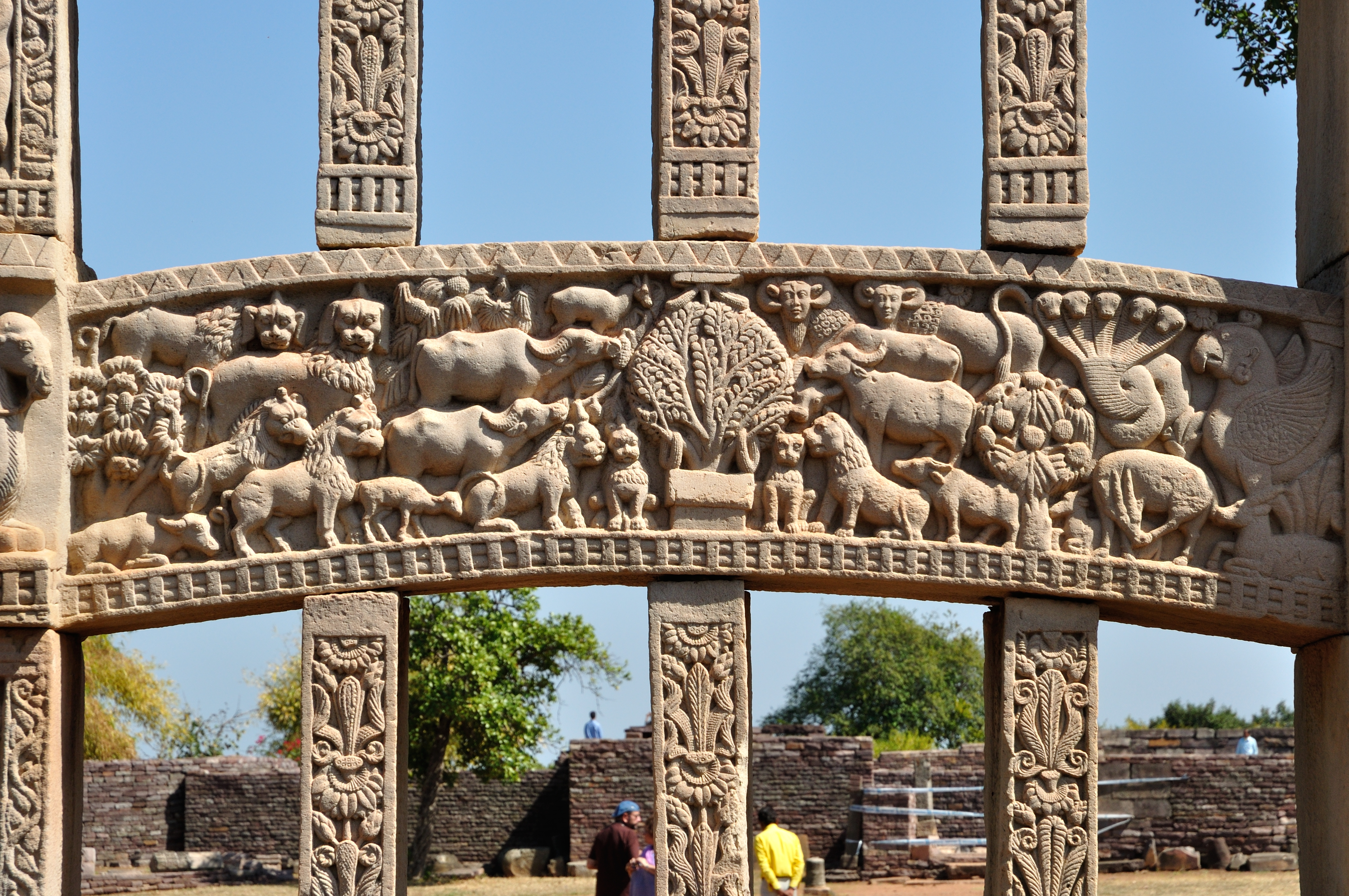 Buddhist monument at the Sanchi Hill, Raisen district of the state of Madhya Pradesh, India.